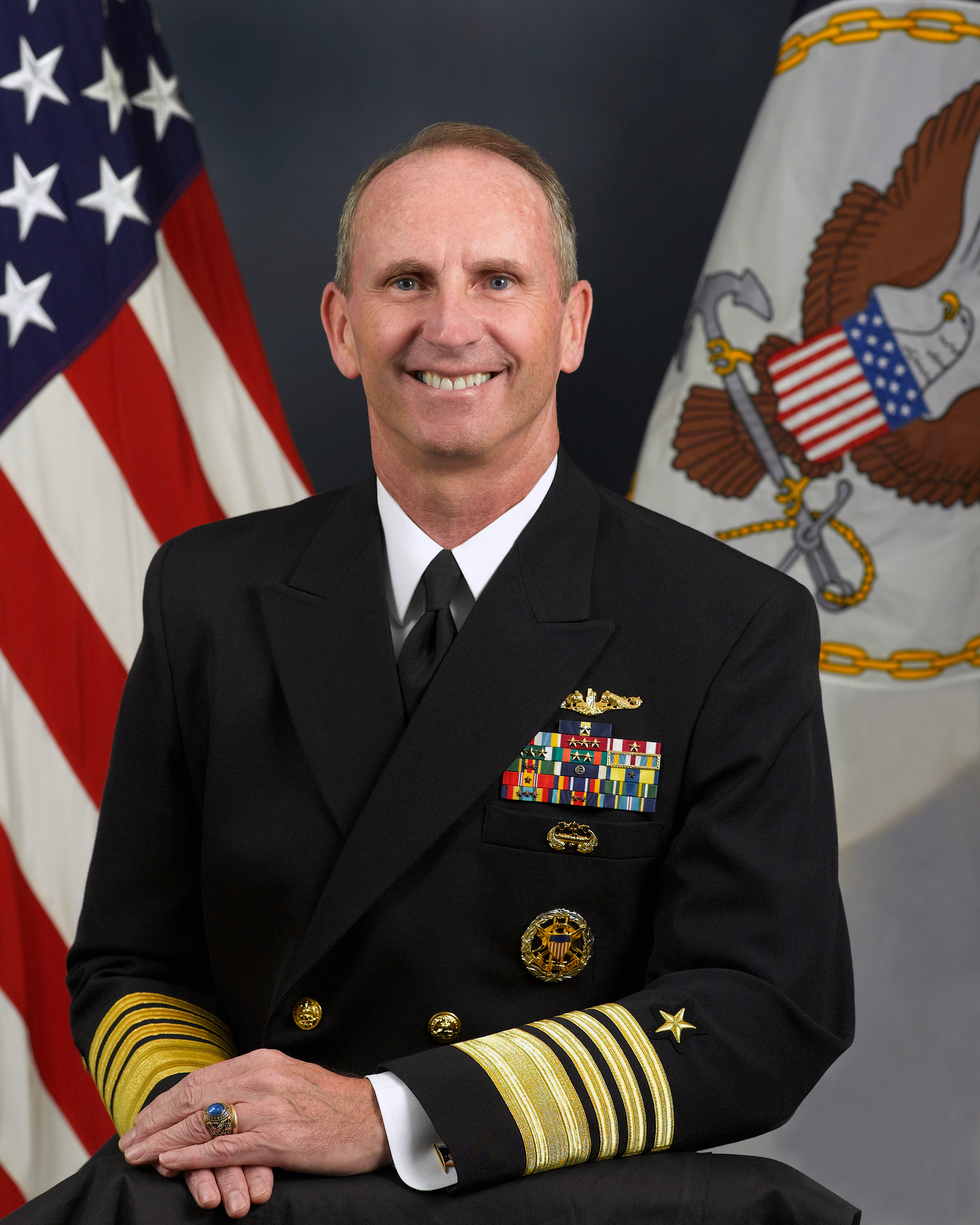 Admiral Jonathan W. Greenert, USN30th Chief of Naval Operations.